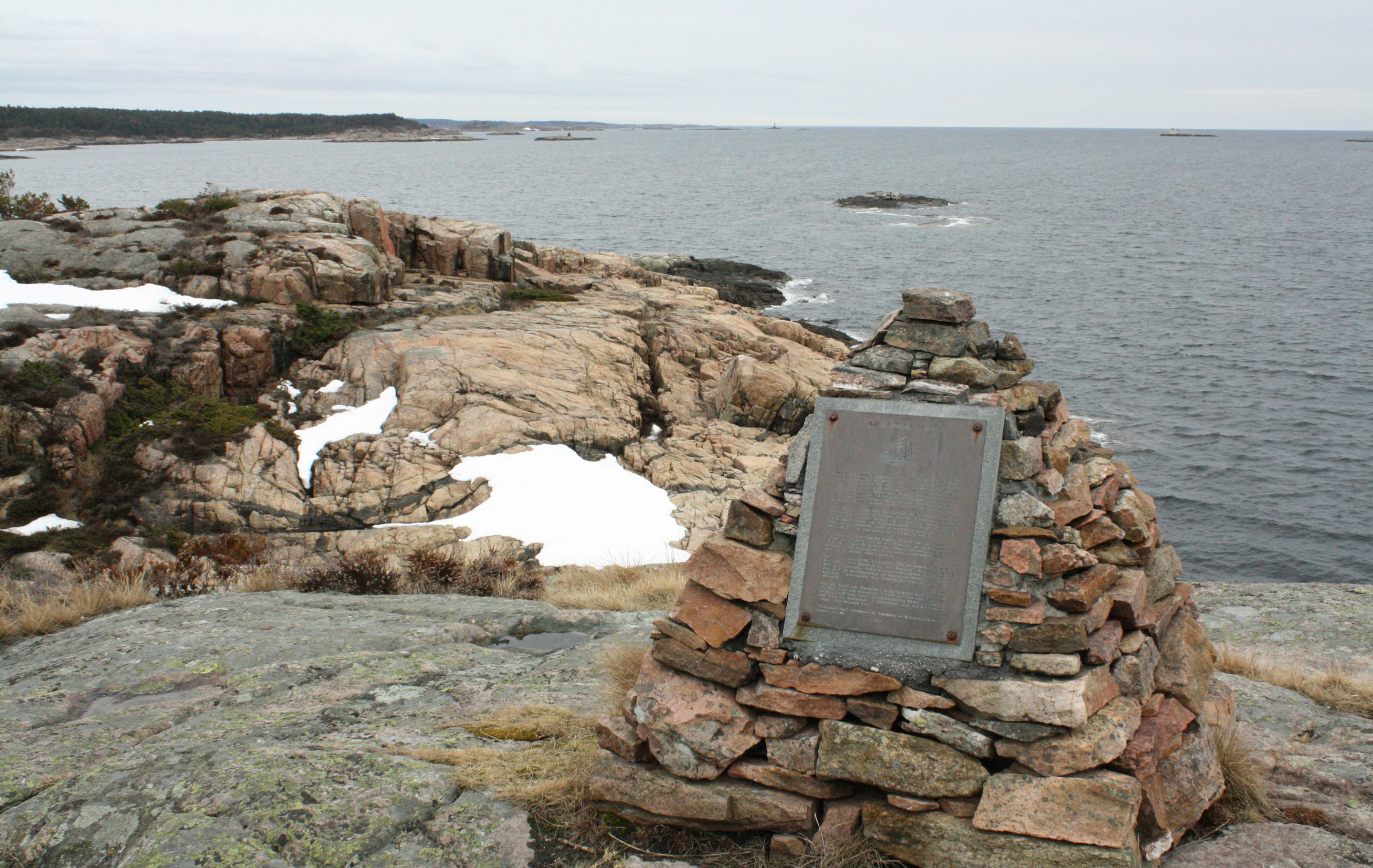 Memorial SS Fredensborg på Tromøya. Cairn with an inscription at the shipwreck site on the eastern Tromøy is an especially important monument.